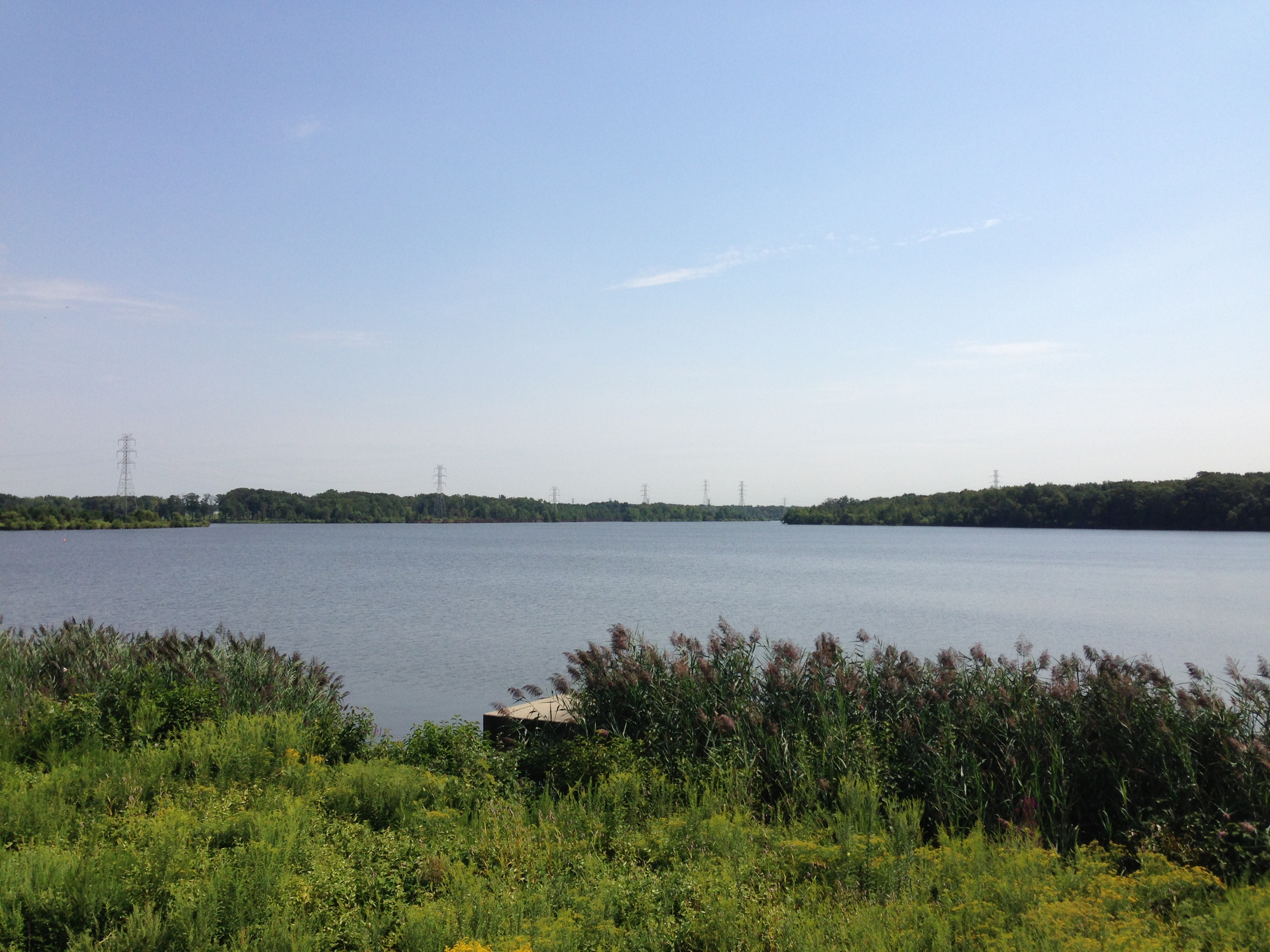 View east across Mercer Lake from the south end of the Mercer Lake Spillway on the Mercer Lake Dam on August 26th 2013